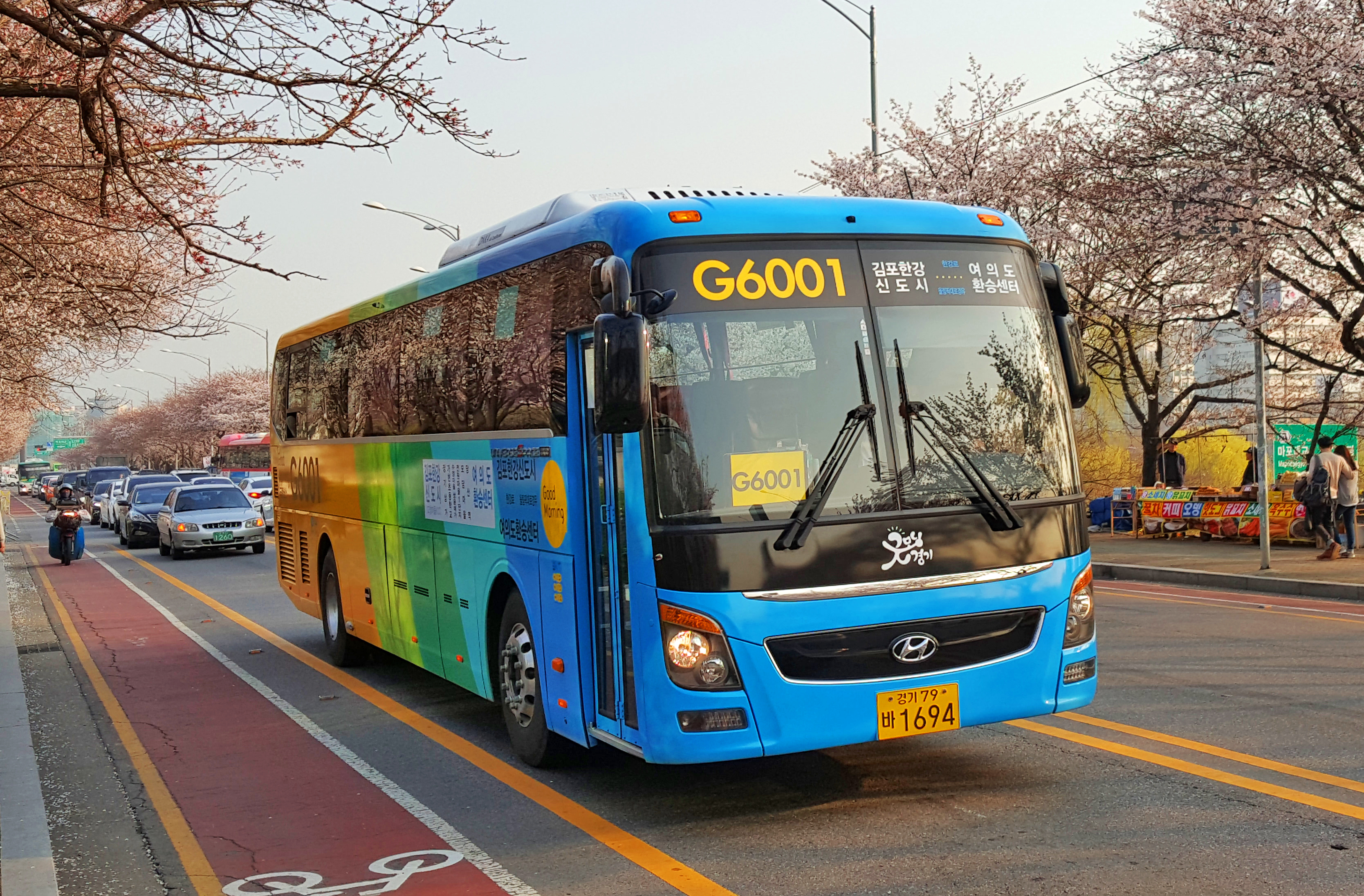 Gyeonggi bus route G6001